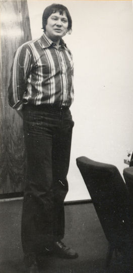 The German geologist Ulrich Wutzke giving a talk at the Hoyerswerda Circle for Art and Literature.